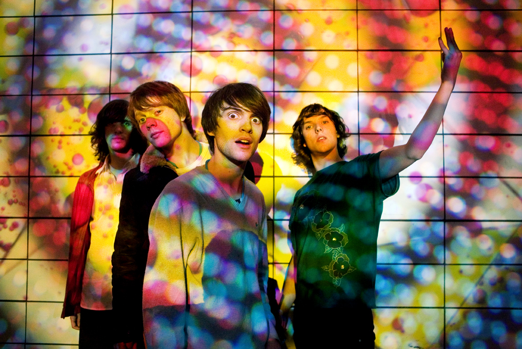 Late Of The Pier posing for camera